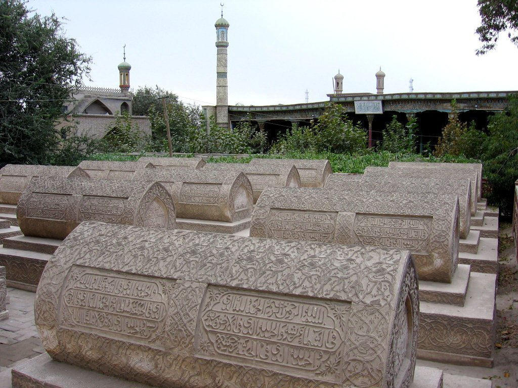 Yarkand (Sache) is an oasis city in the Xinjiang Uygur Autonomous Region of the People's Republic of China. Yarkand Kingdom Cemetery at Altyn Mosque complex.